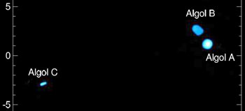 The Algol system as it appeared on 12 August 2009. This is not an artistic representation, but rather is a true two-dimensional image with 1/2 milli-arcsecond resolution in the near-infrared H-band, reconstructed from data of the CHARA interferometer. The elongated appearance of Algol B and the round appearance of Algol A are real. The form of Algol C, however, is a artifact.